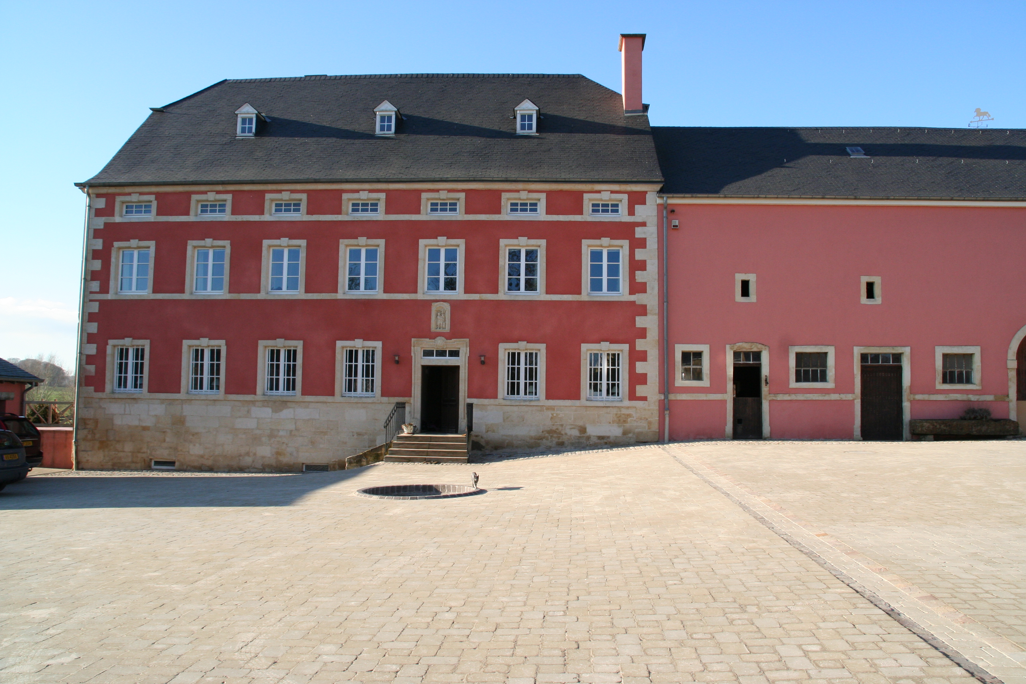 Old farm house in, built in 1789.